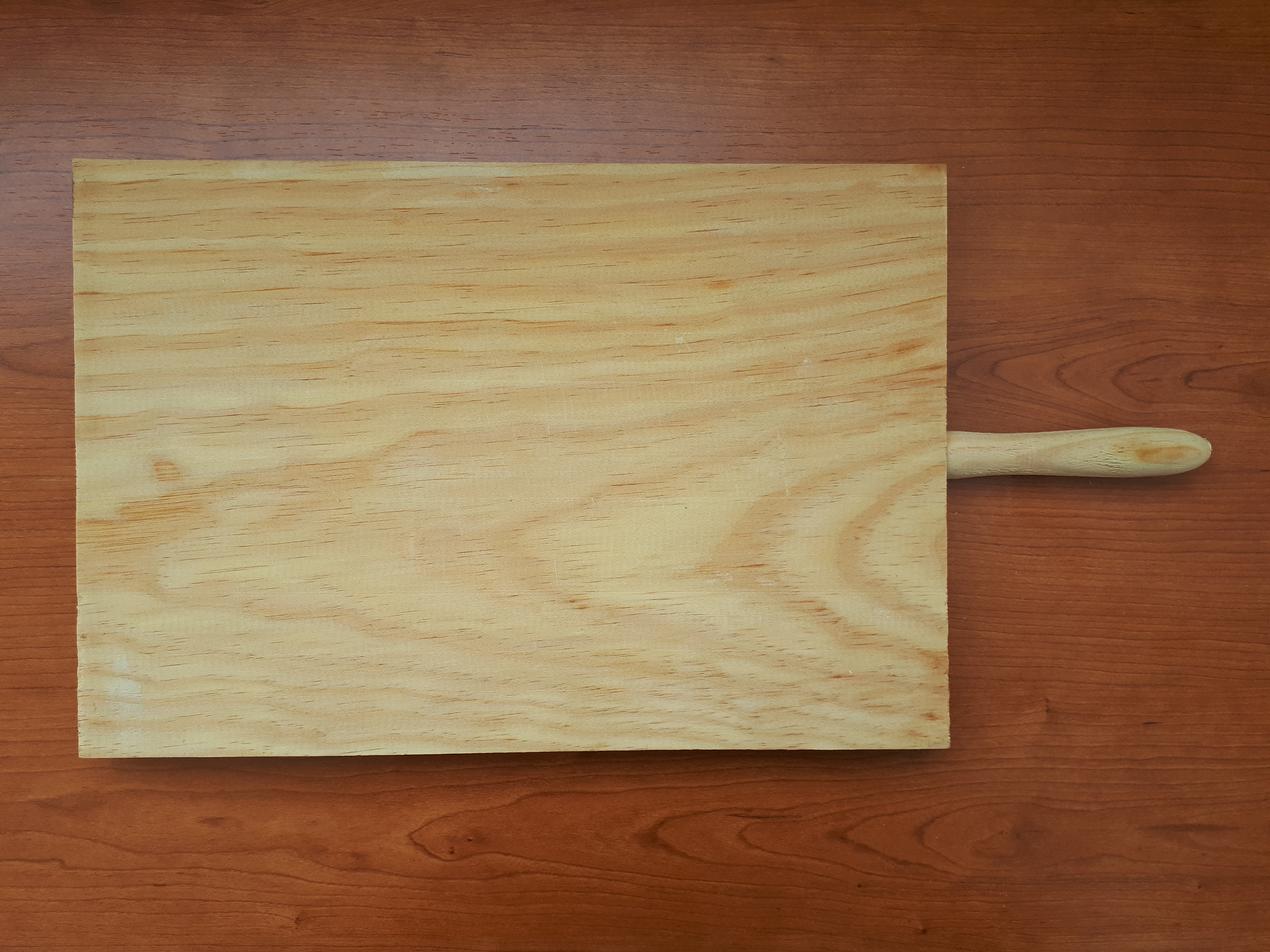 Wooden cutting board